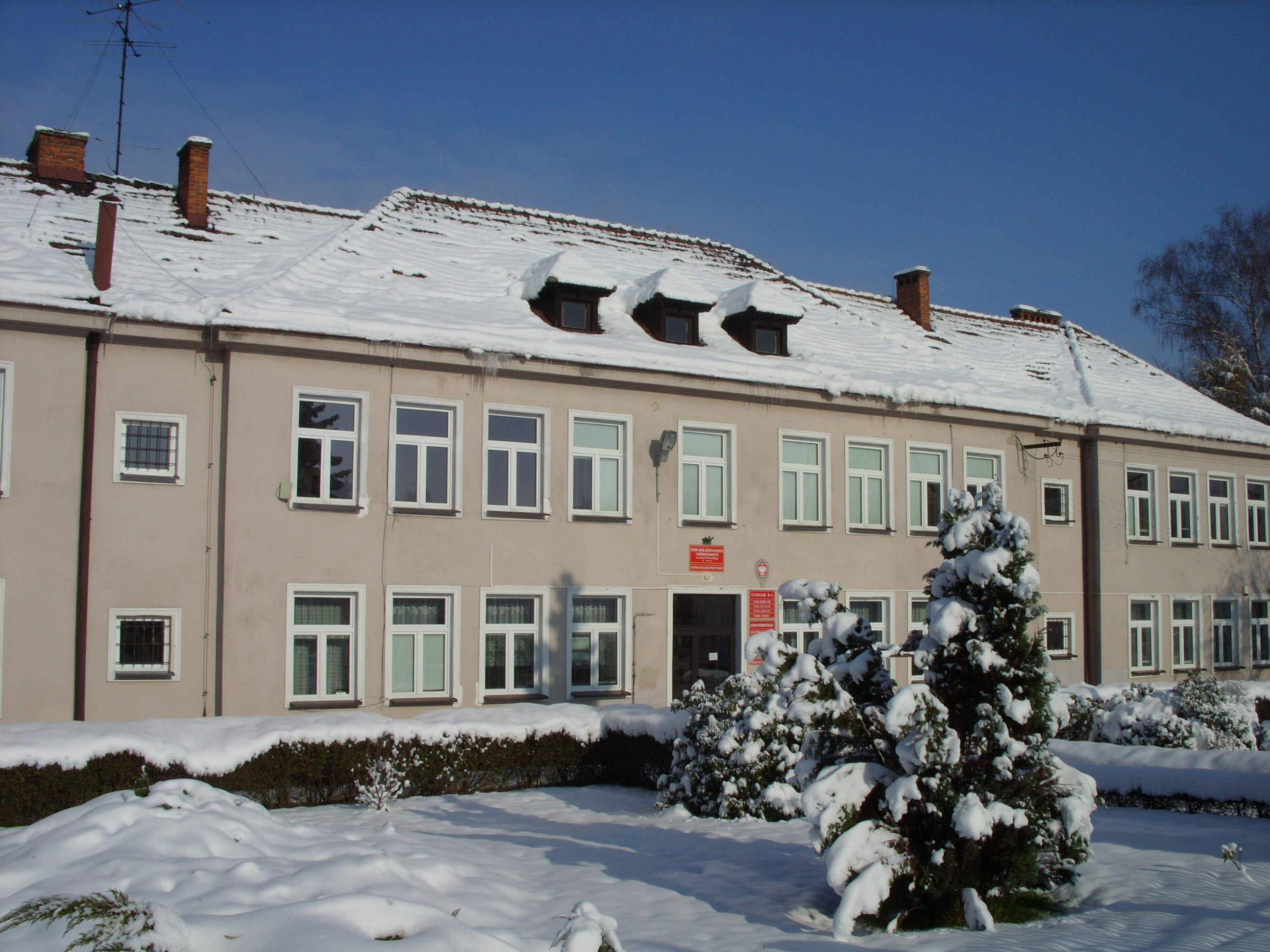 5th High School and Secondary Technical School of Agriculture in Żywiec